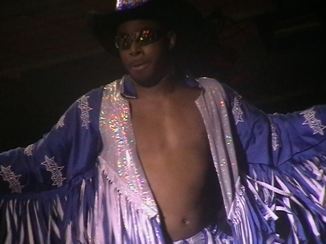 Lethal working for TNA. Jay Lethal.